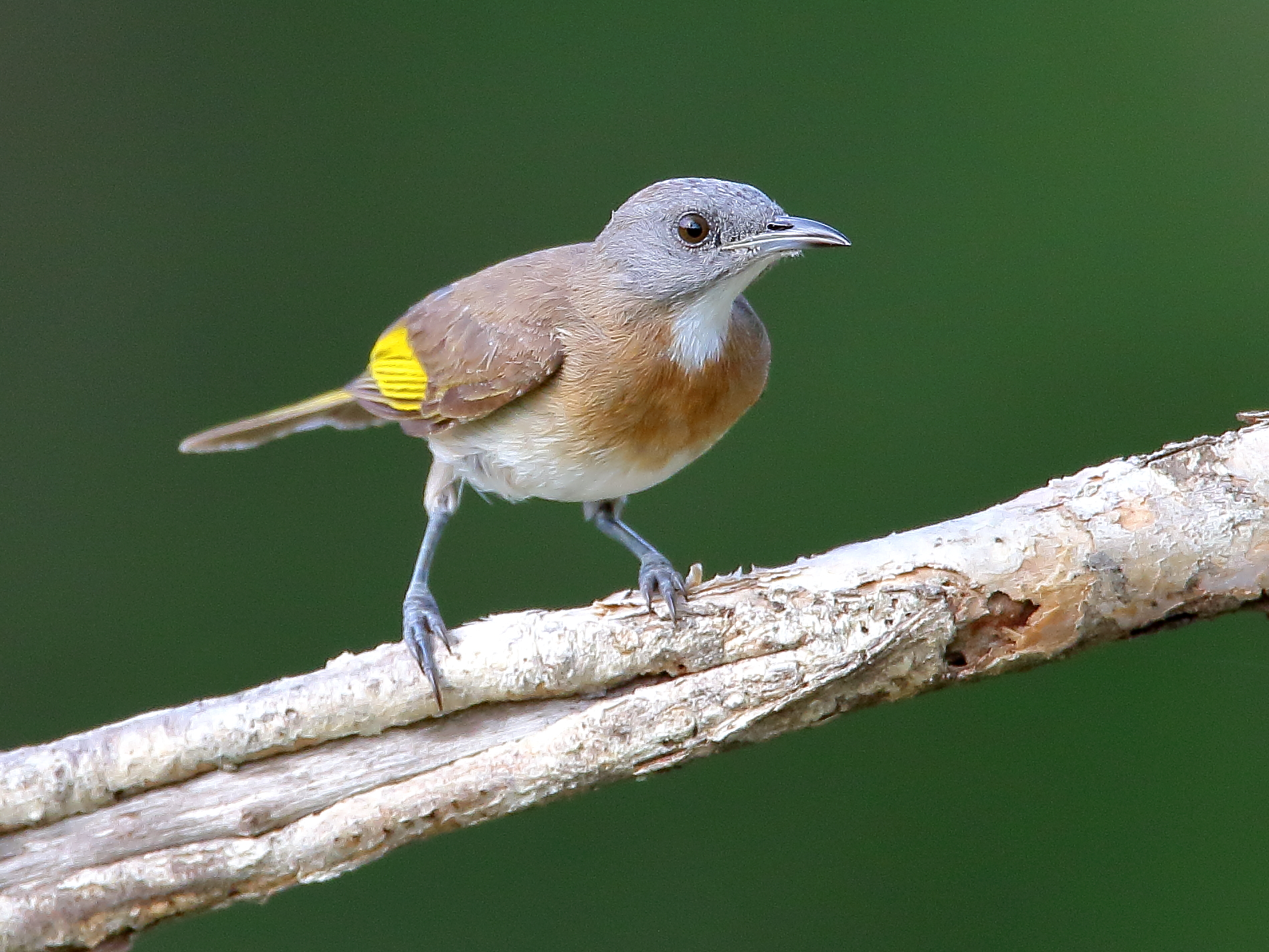 Rufous-banded honeyeater (Conopophila albogularis) at Marlow Lagoon, Darwin, Northern Territory, Australia